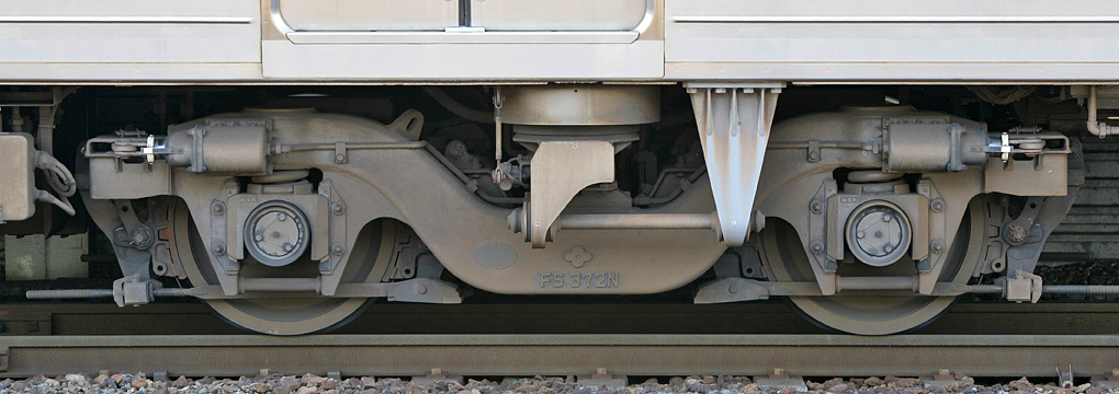 Sumitomo Metal Industries type FS-372N bogie truck of Izuhakone 3000 series EMU